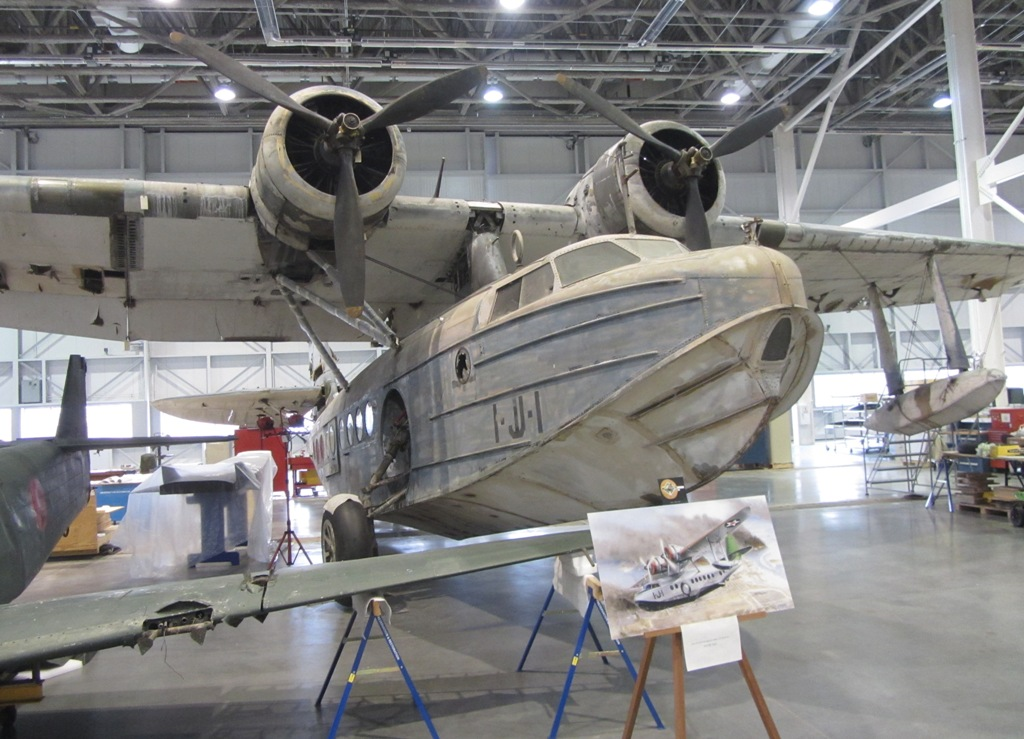 Sikorsky JRS-1